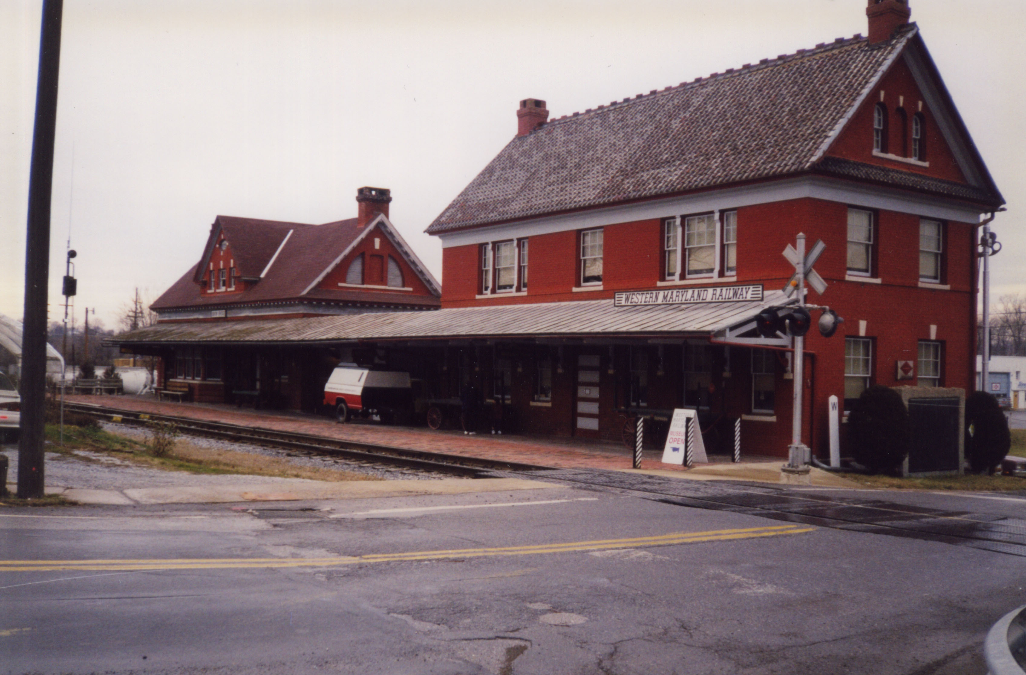 View of Western Maryland Railway station in Union Bridge, Maryland, USA